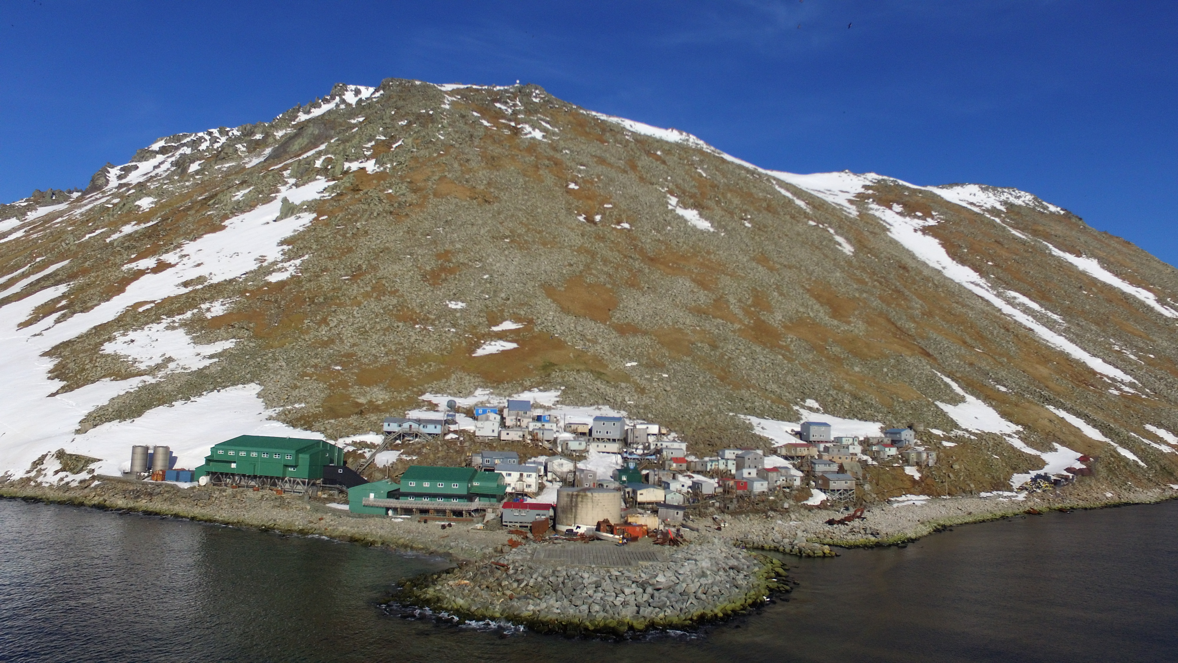 One of the most remote villages in the Bering Strait Region, Little Diomede Island is less than 2 miles from the international date line and Russia.